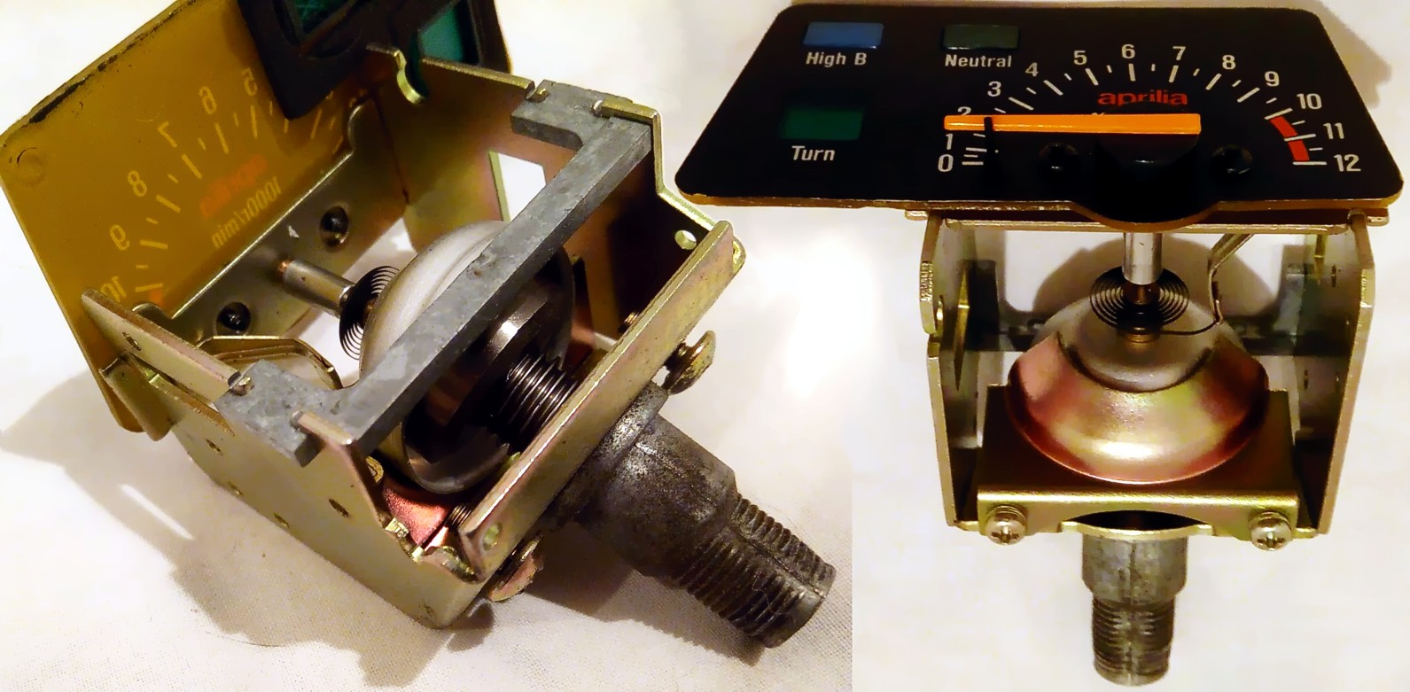 Mechanism of a mechanically operated tachometer by viscous air friction